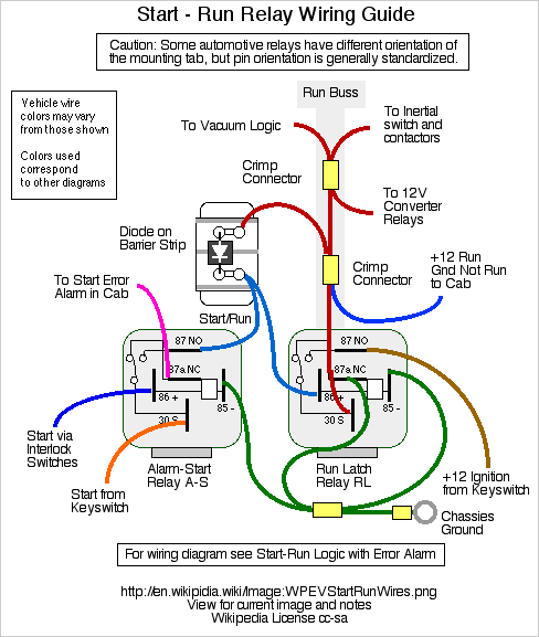 For downloadable PDF file see :Image:WPEVStartRunWires.pdf (use for high resolution printing). Diagram drawn and uploaded by User:Leonard G. Drawing notes (for translation): Title: Start-Run Relay Wiring Guide Top: Caution: Some automotive relays have different orientation of the mounting tab, but pin orientation is generally standardised. Top Left: Vehicle wire colors may vary from those shown. Colors used correspond to other diagrams. Bottom: For wiring diagram see Start-Run Logic with Error Alarm. Note that some equivalent automotive relays use a different position of the mounting tab, although the pin configuration for general purpose relays is standardized. Wire colors correspond to other diagrams and may vary in actual installations. The diode is mounted on a small two-bay barrier strip using its screws. Since multiple wires are joined together using crimp-on connectors an oversized crimp will be used. If the wires do not well fill the connector before crimping it may be necessary to strip extra length on a wire and double it by folding it over to properly pack the connector. Pull test each wire after crimping. Multiple wires may be similarly joined elsewhere at the slide-on relay tab connections, which may also require connectors for the next larger wire size and similar packing considerations.